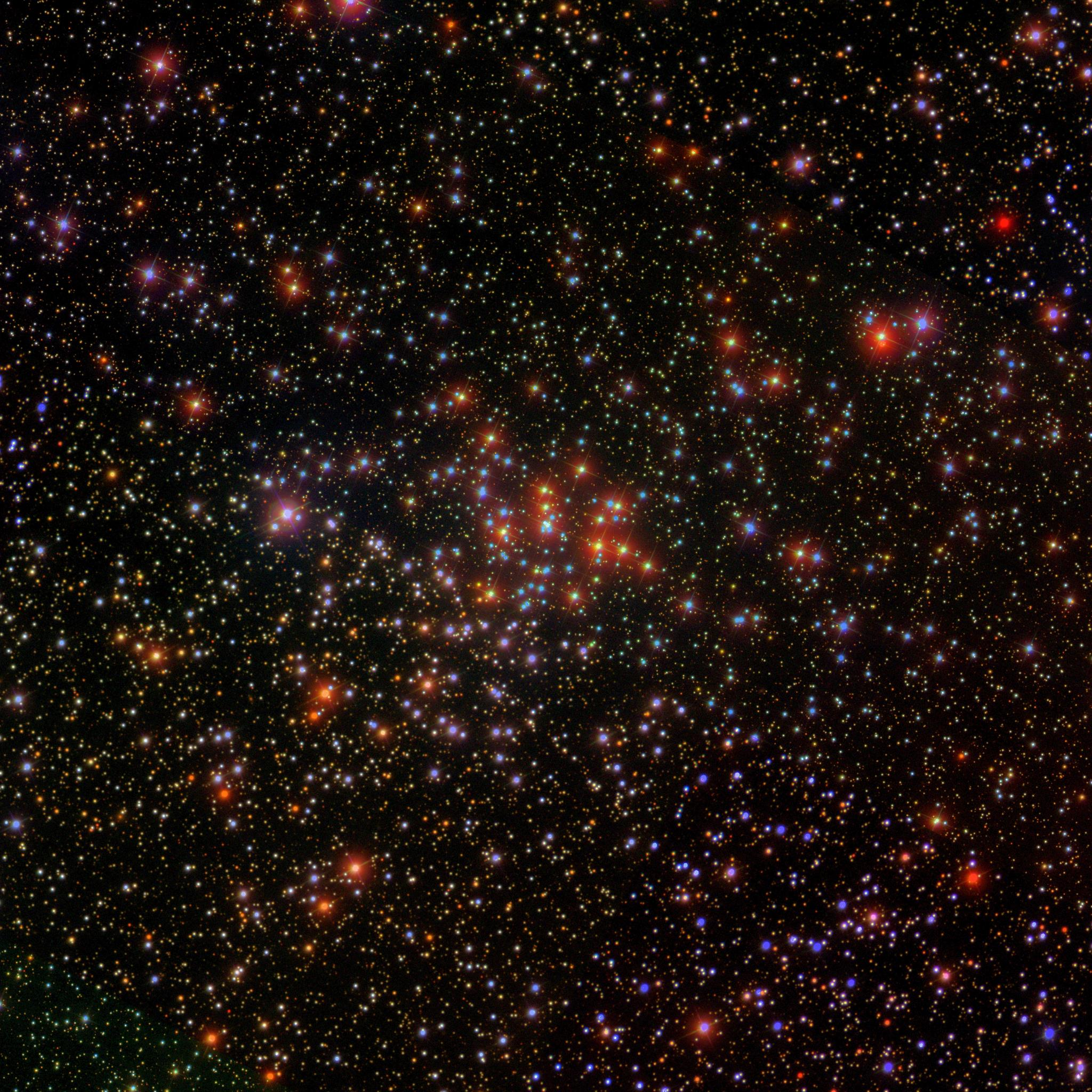 Angle of view: 27' × 27' (0.792" per pixel), north is up.